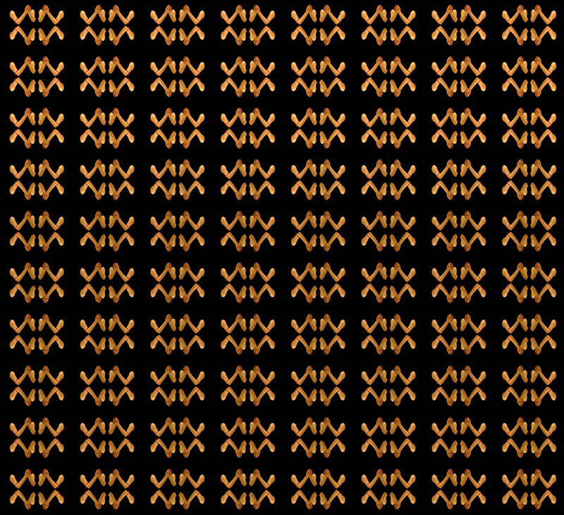 Photography